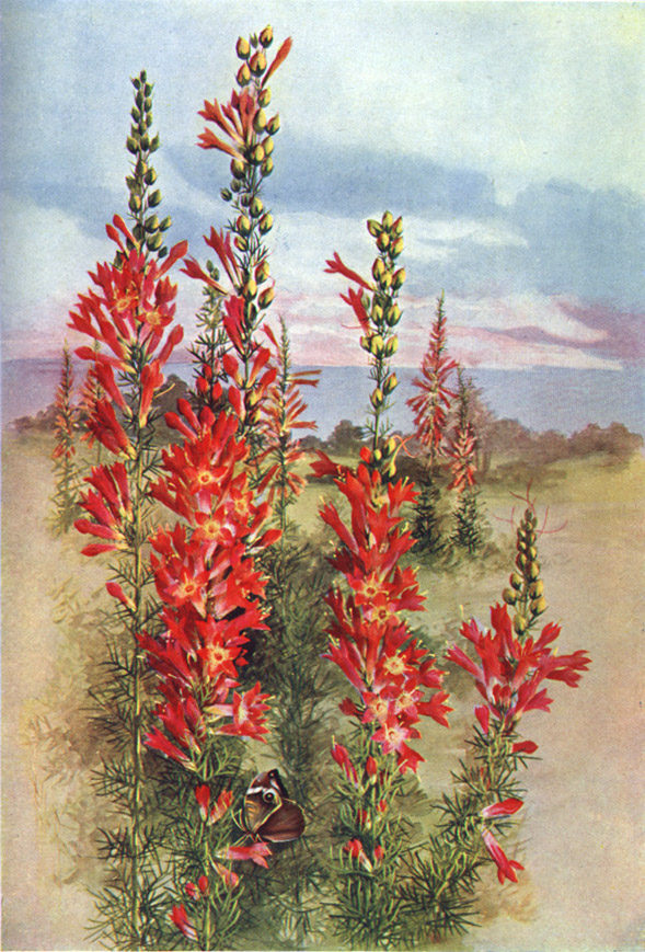 Standing Cypress, Ipomopsis rubra offset color reproduction or engraving/etching